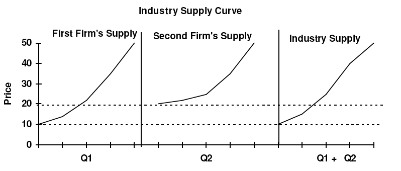 pc inductry supply curve